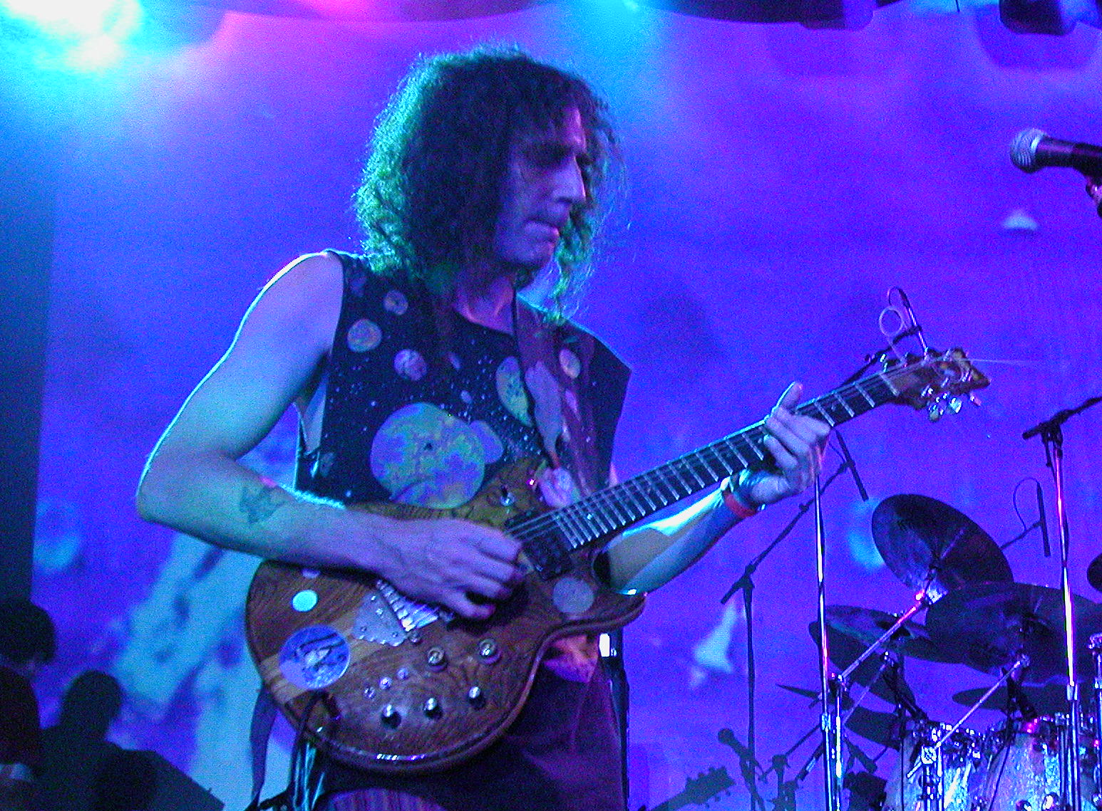 Ed Wynne of Ozric Tentacles